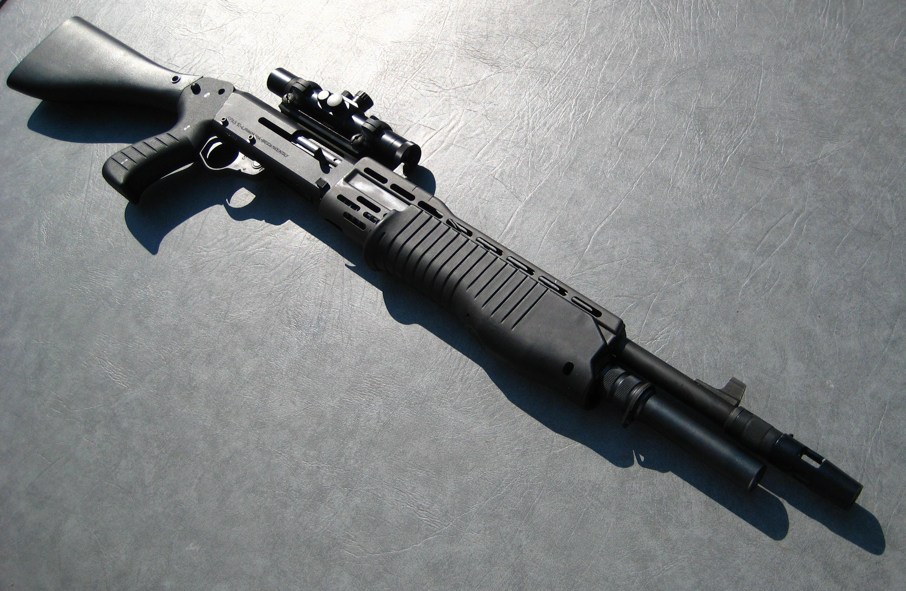 A Franchi SPAS-12 with a fixed stock, shot diverter, and scope mount accessory.